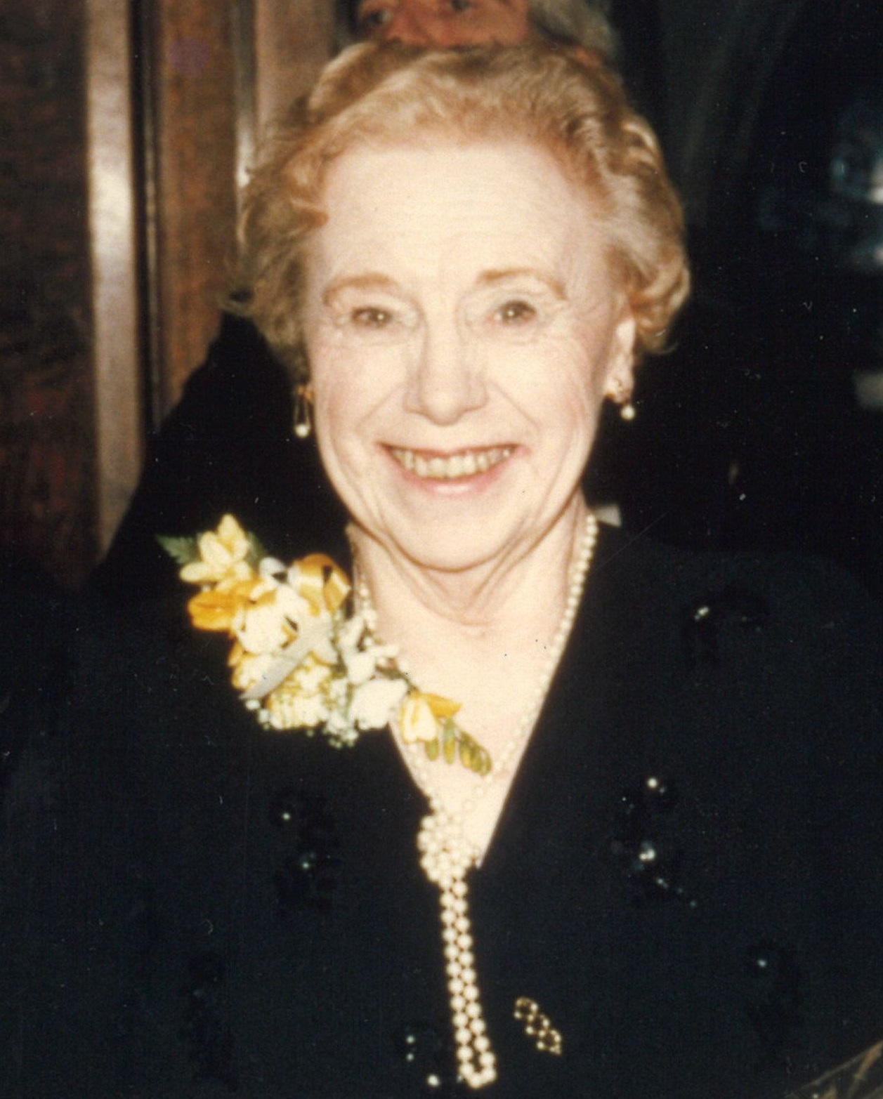 Irina Nijinska, former dancer and restager of the works of her mother, Bronislava Nijinska, attends the opening of the exhibition Bronislava Nijinska: A Dancer's Legacy, on March 17, 1986, at the Cooper-Hewitt Museum in New York City.